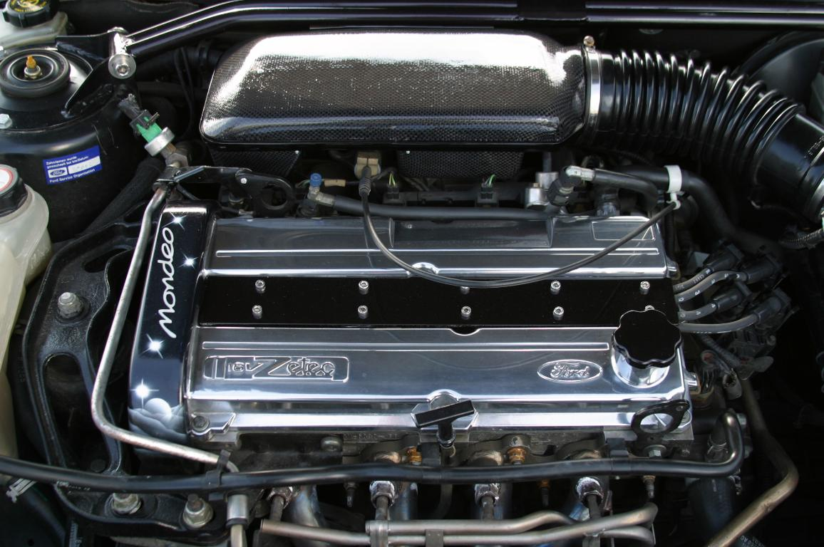 Zetec E 1.8 16V engine in a MK1 Mondeo